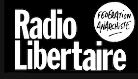 Own-made Radio Libertaire logo based on the original one.